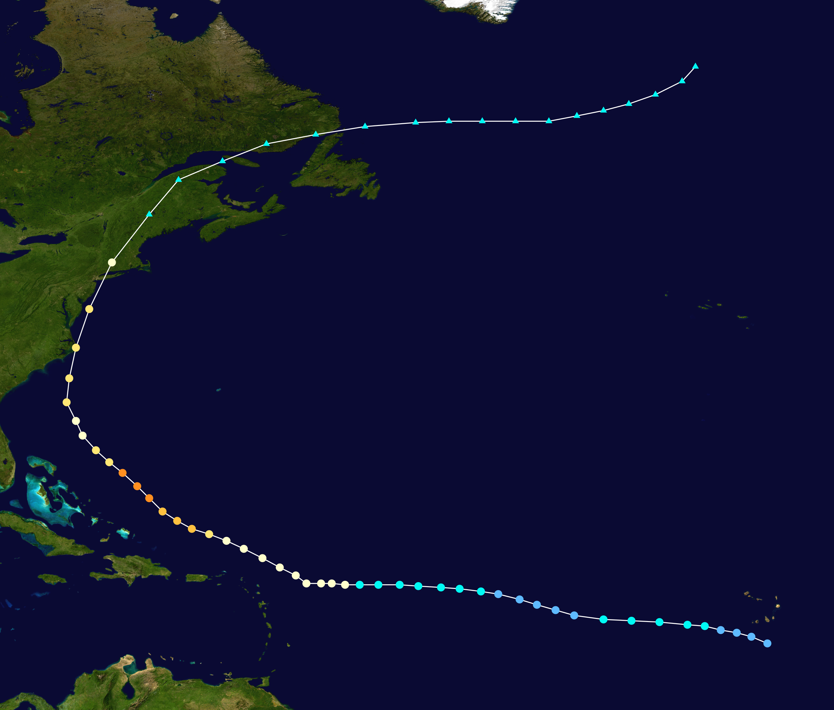 Hurricane Gloria (1985) track. Uses the color scheme from the Saffir-Simpson Hurricane Scale.